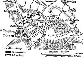 Historical map of the campaign by Lützen (16.11.1632).